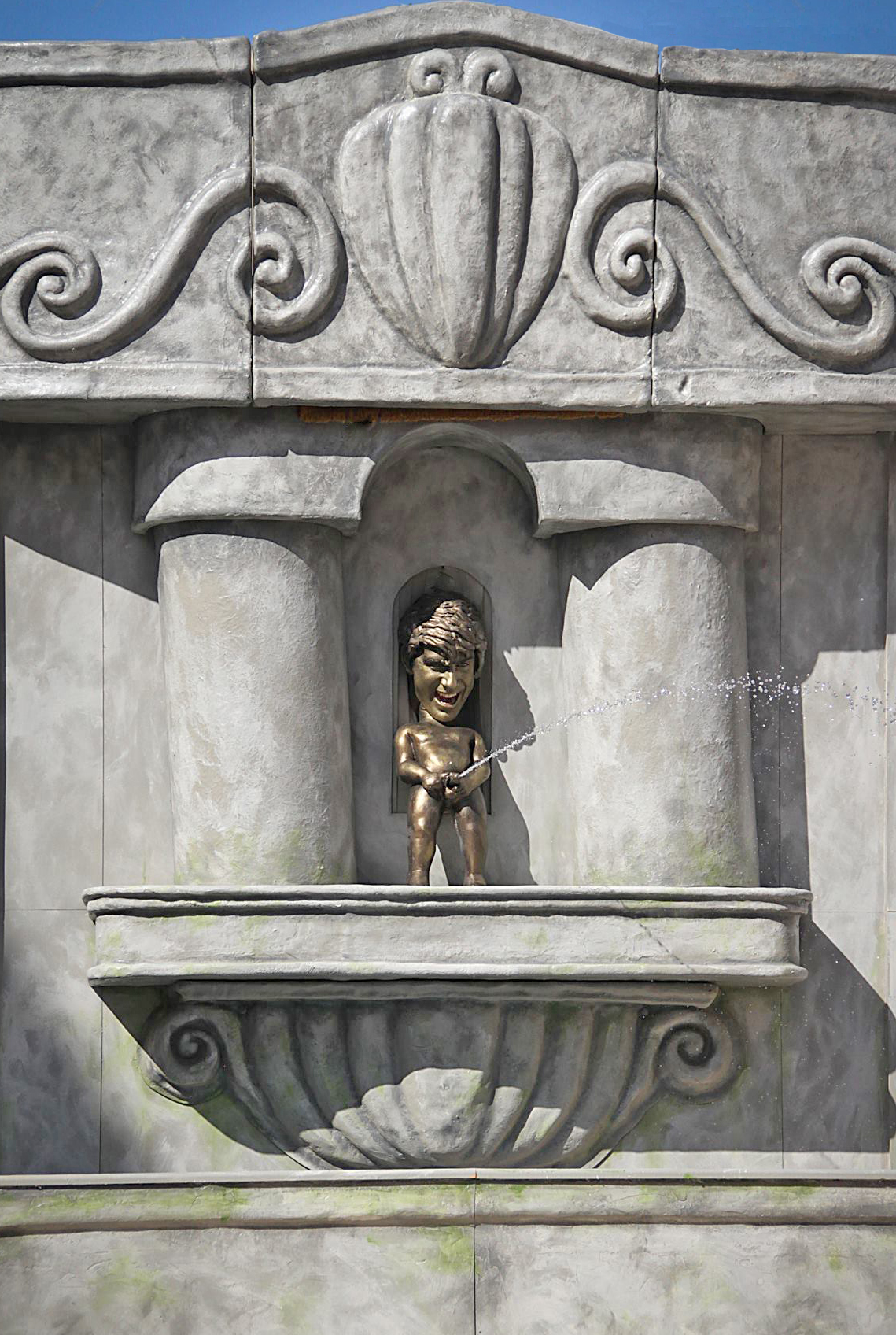 Catalonia: Street theatre with a living Manneken Pis by the Catalan grup Campi Qui Pugui